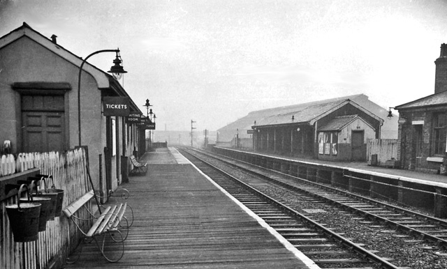 Broadheath (Altrincham) Station. View westward, towards Warrington and Liverpool; ex-London & North Western (Liverpool) - Ditton Junction - Warrington (Bank Quay, Low Level) - Stockport/Timperley - Manchester (London Road) line. The station closed to passengers on 10/9/62 when this minor route between Liverpool and Manchester lost its passenger service, local goods ceased on 28/12/64, but the line remained as a main freight route until 7/7/85.